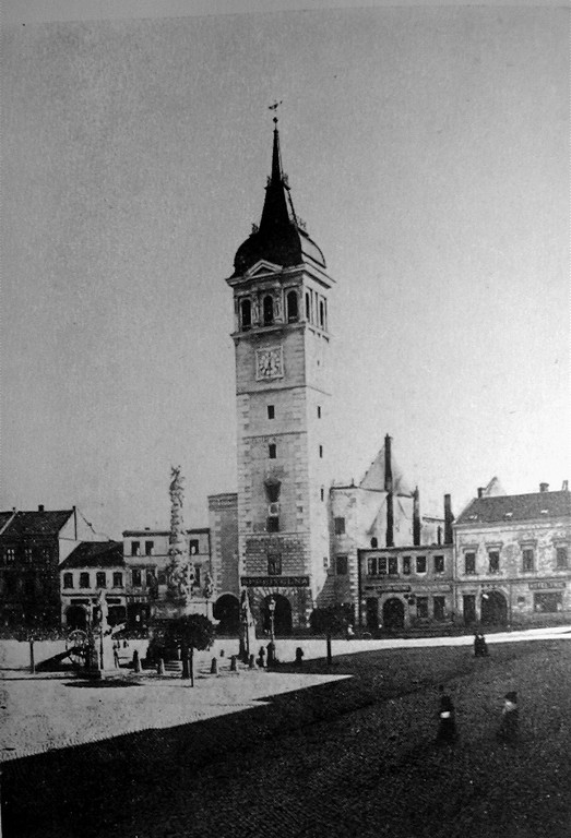 Vyškov (Czech Republic)